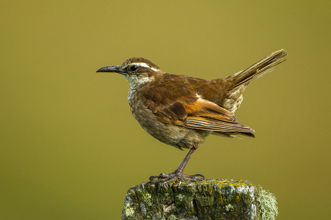 Stout-billed Cincloides - Colombia_S4E0981